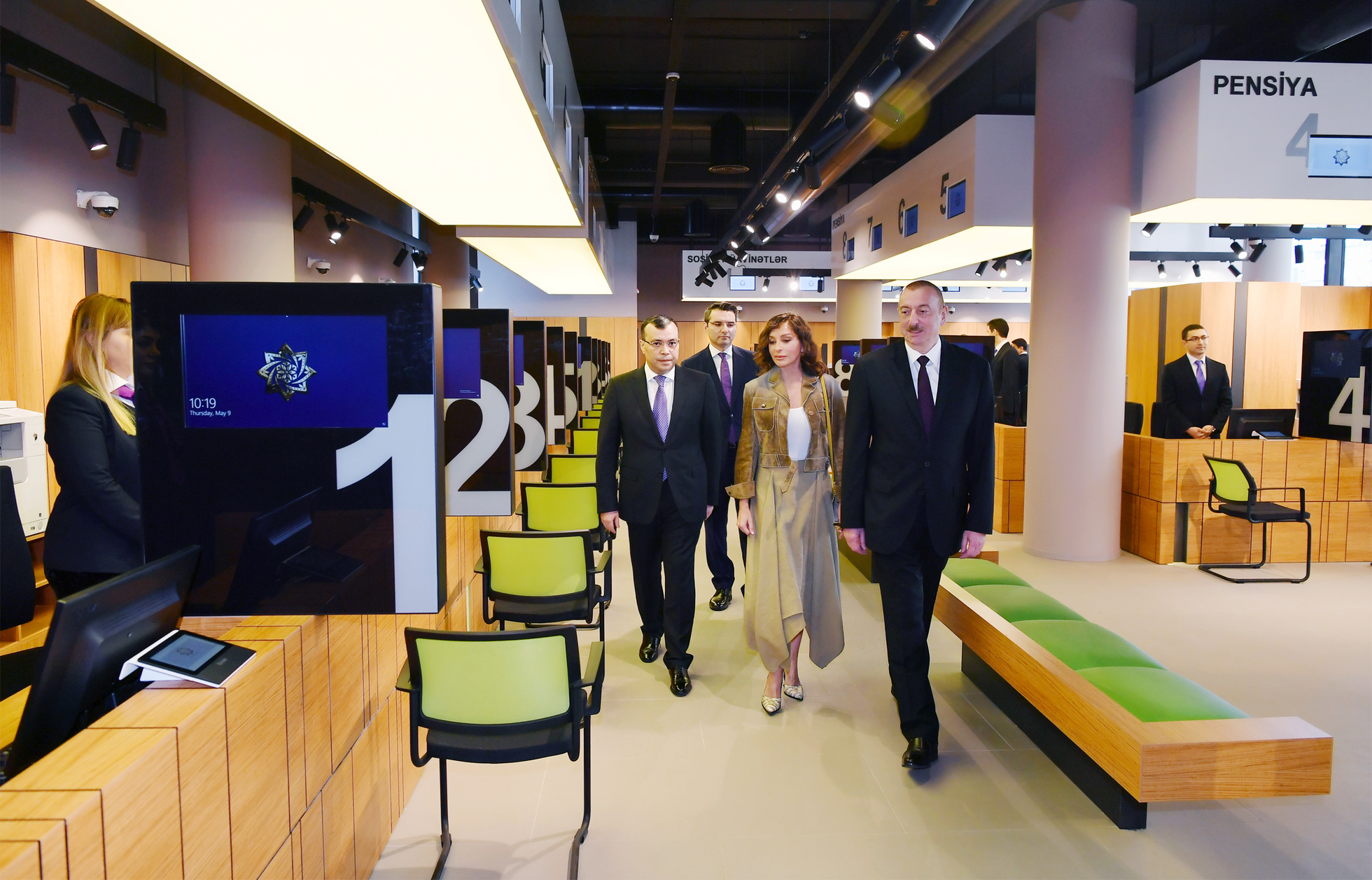 Ilham Aliyev attended opening of administrative building of DOST Agency and first DOST center